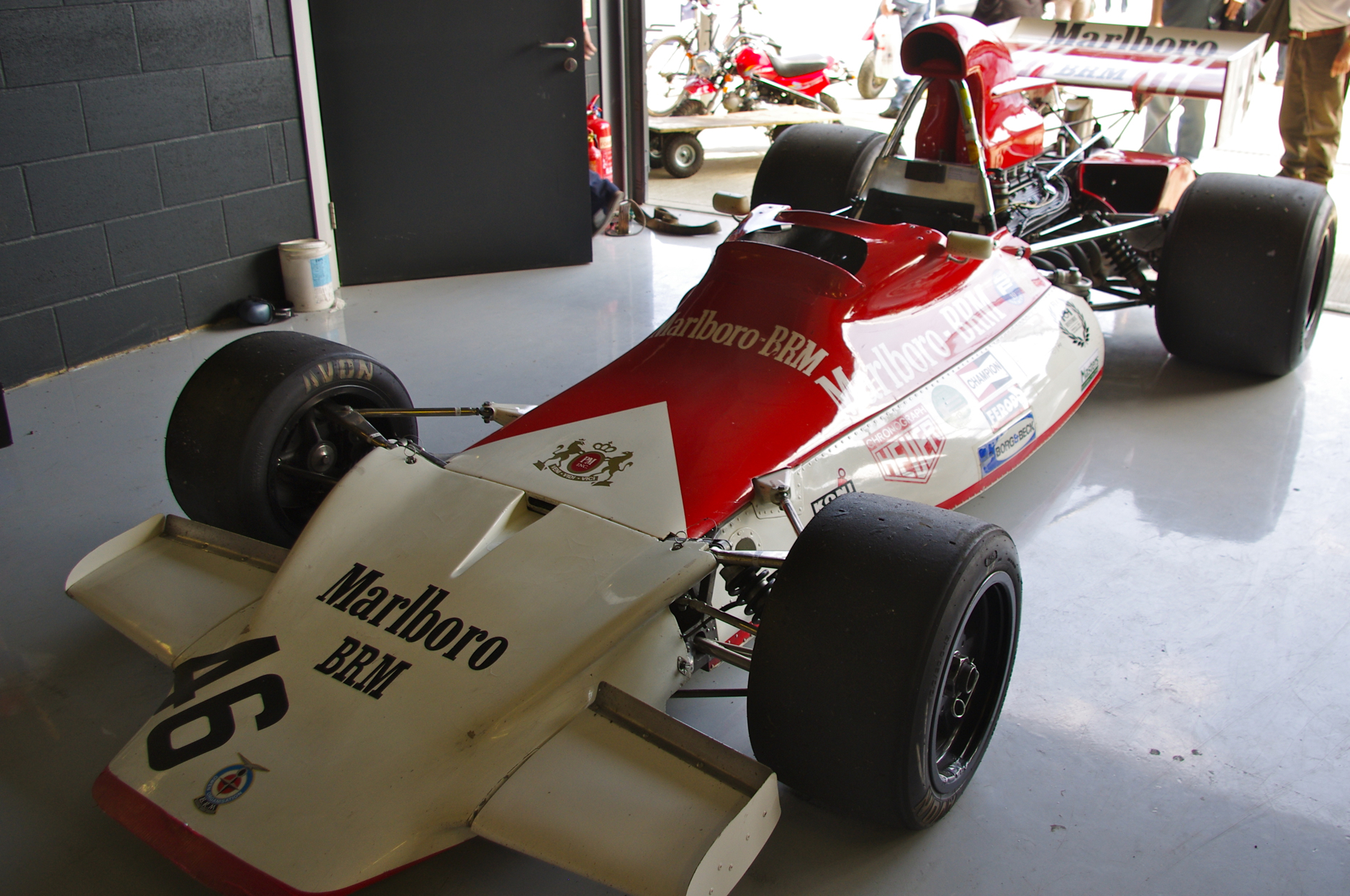 Silverstone Classic, 2012